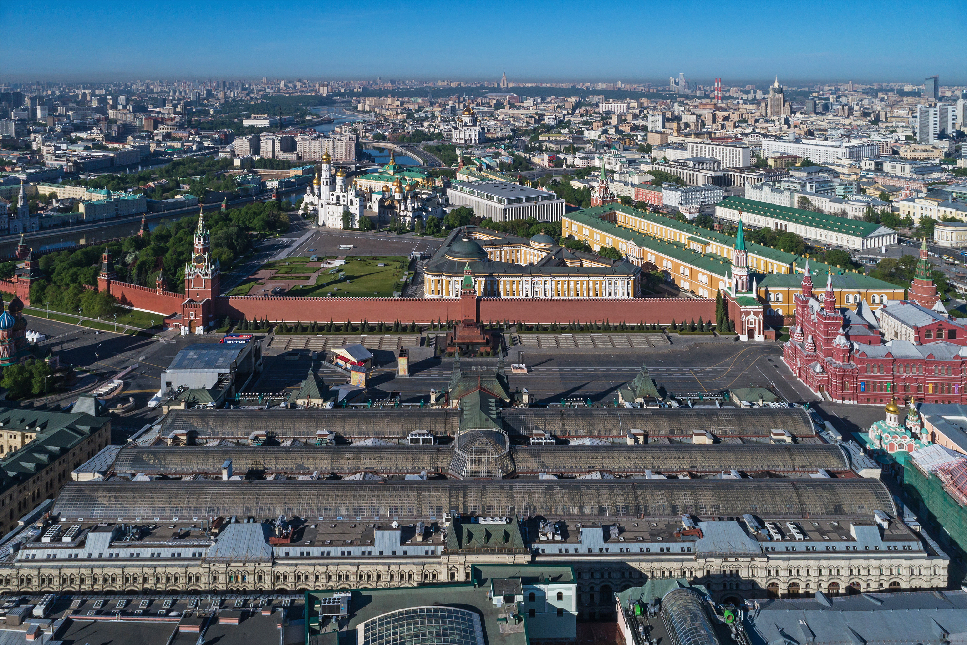 Aerial photo near Red Square and Kitay-Gorod in Moscow (Russia).